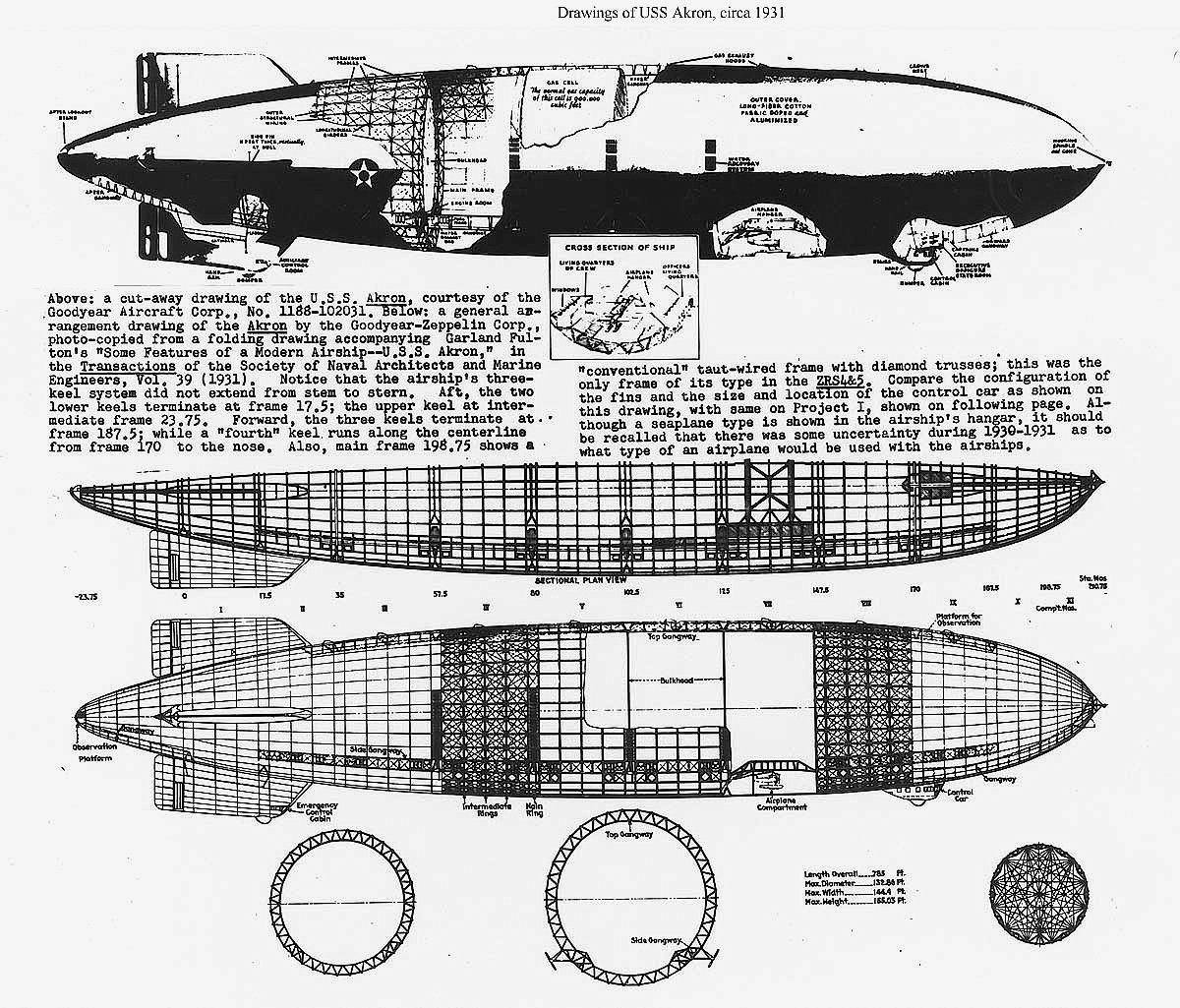 USS Akron (ZRS-4) Cutaway and interior structural drawings, circa 1931.